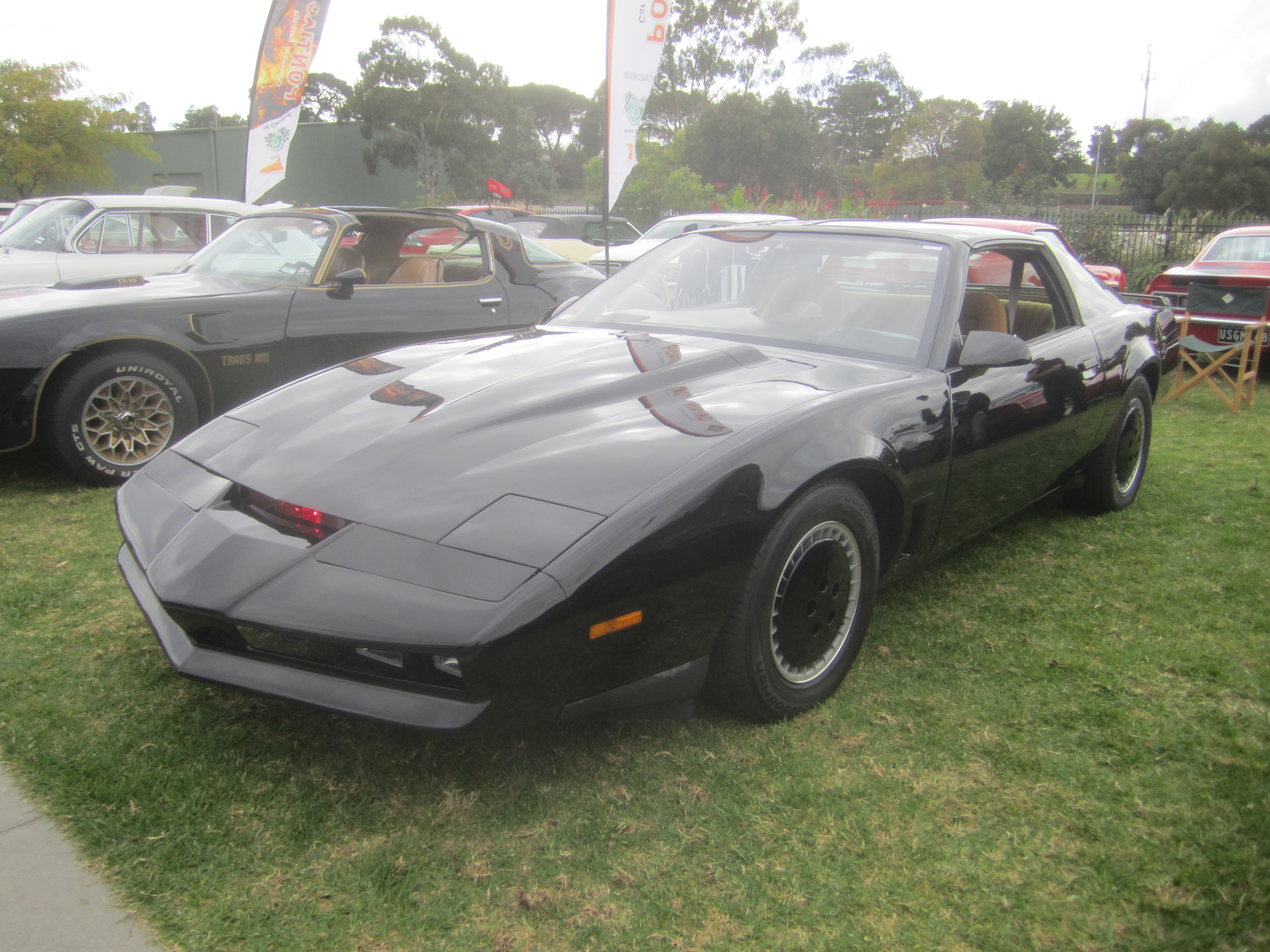 The 3rd generation Firebird (1982-92) was more aerodynamic and 8 inches shorter, with hatchback and retractable headlights. Available in base Firebird, luxury S/E and High Performance Trans Am. This model Firebird featured in a TV series called 'Knightrider' (1982-86) starring David Hasselhoff and 'Kitt' the talking Pontiac Trans Am, which was controlled by a computer with artificial intelligence. Engines; 151 cu in 4 cyl, 173 cu in V6 and 305 cu in Chev V8.